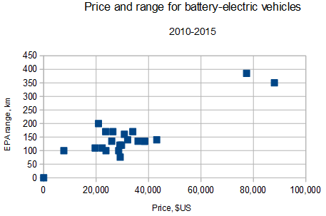 Electric vehicles range and price, until 2015. Source: UBS Evidence Lab Electric Car Teardown , numbers at